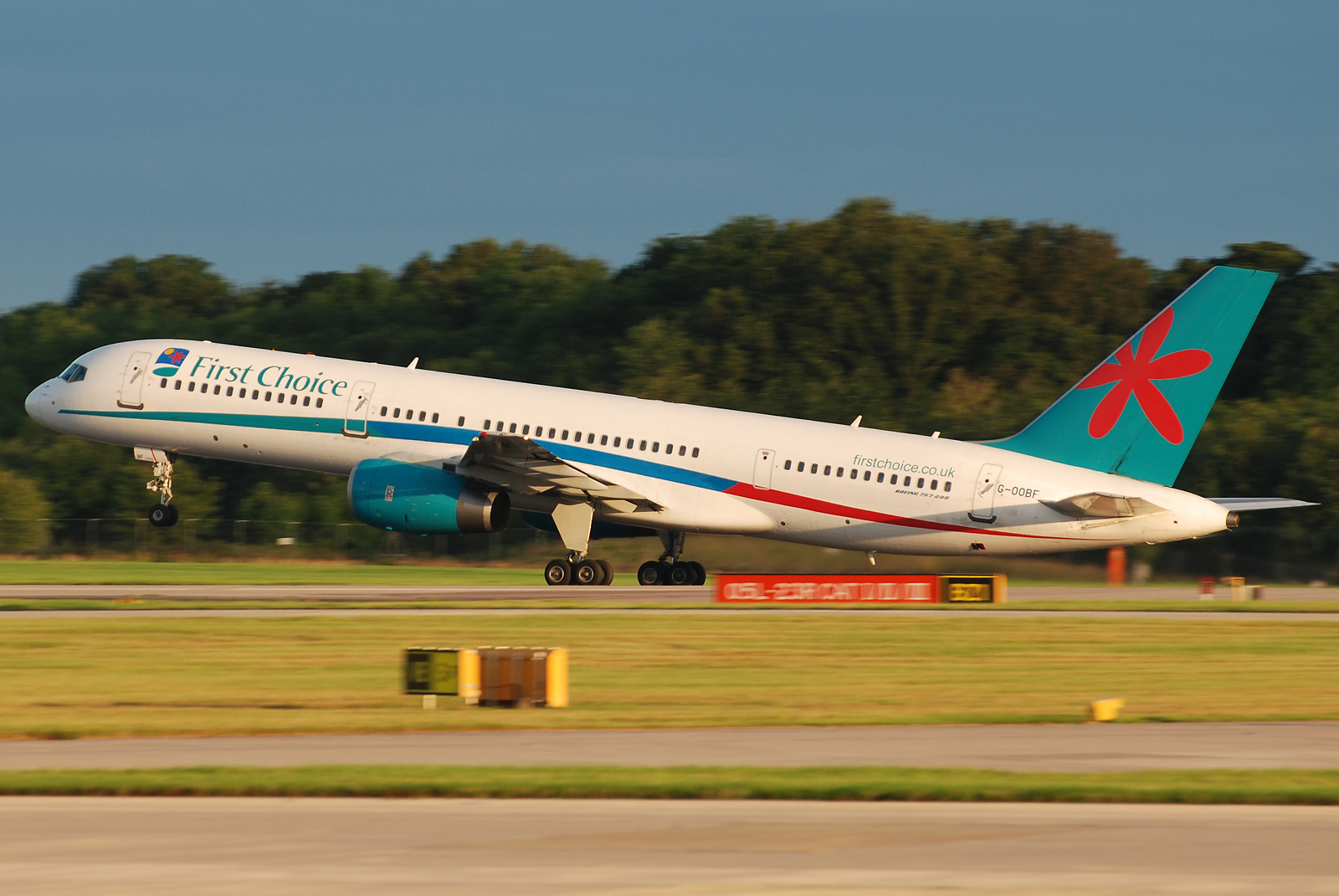 First Choice Airlines Boeing 757-200 G-OOBF at Manchester Airport